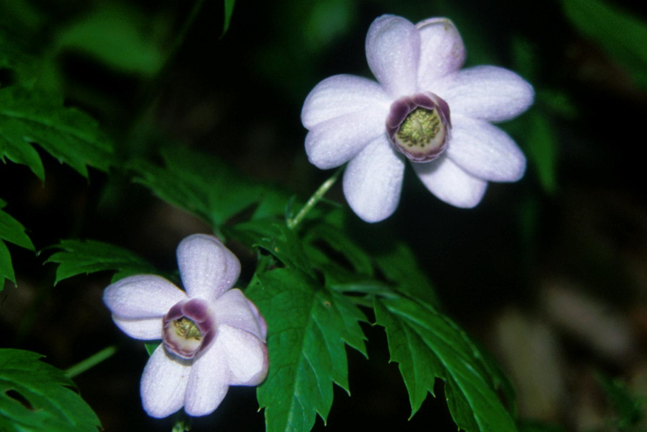 Anemonopsis macrophylla in Mount Hijiri, Akasihi Mountains, Japan.